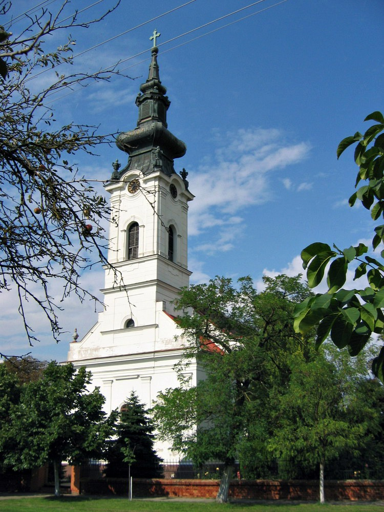 Slovak Evangelical Lutheran a.c. Church in Aradac